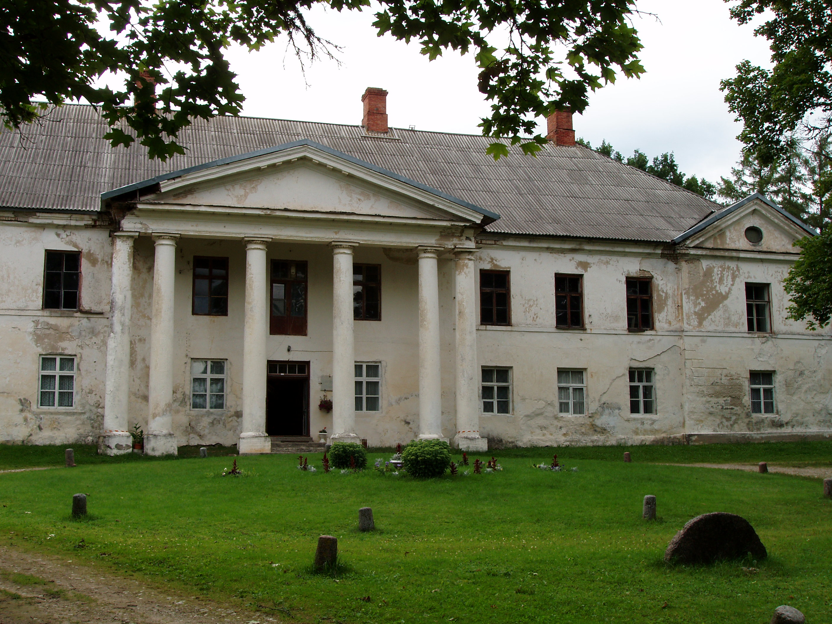 Kirna manor house.